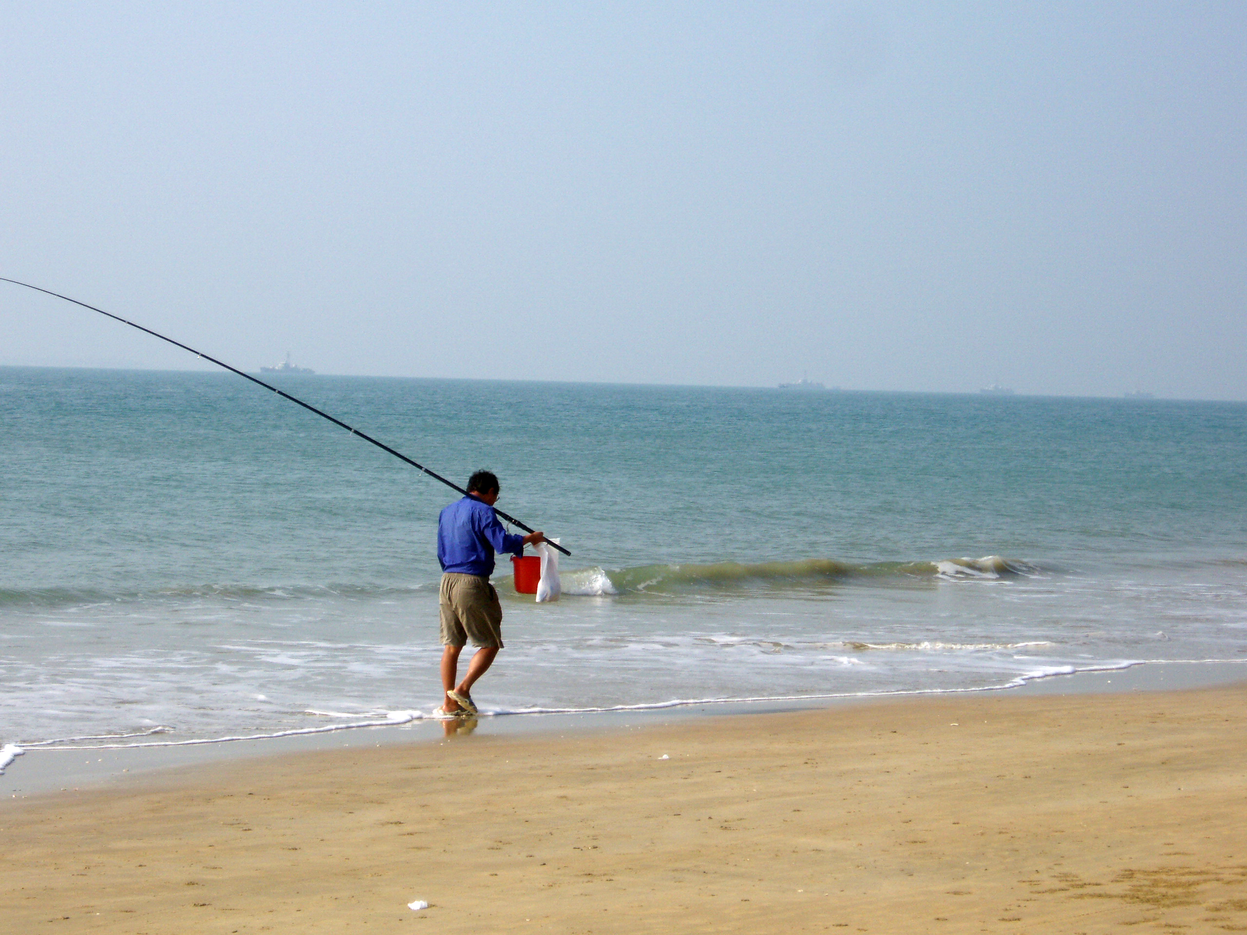 The fishman in Sanya, Hainan,China